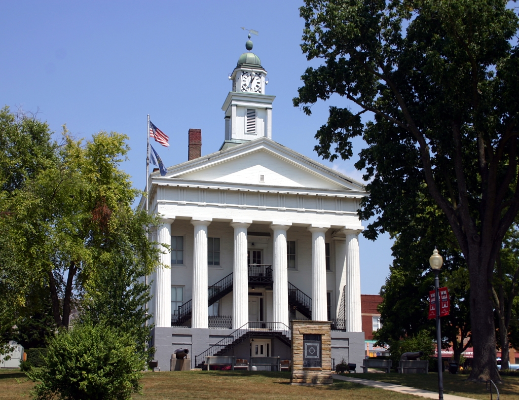 Orange County Courthouse, Paoli, by Rick Dikeman, 8/8/2007.